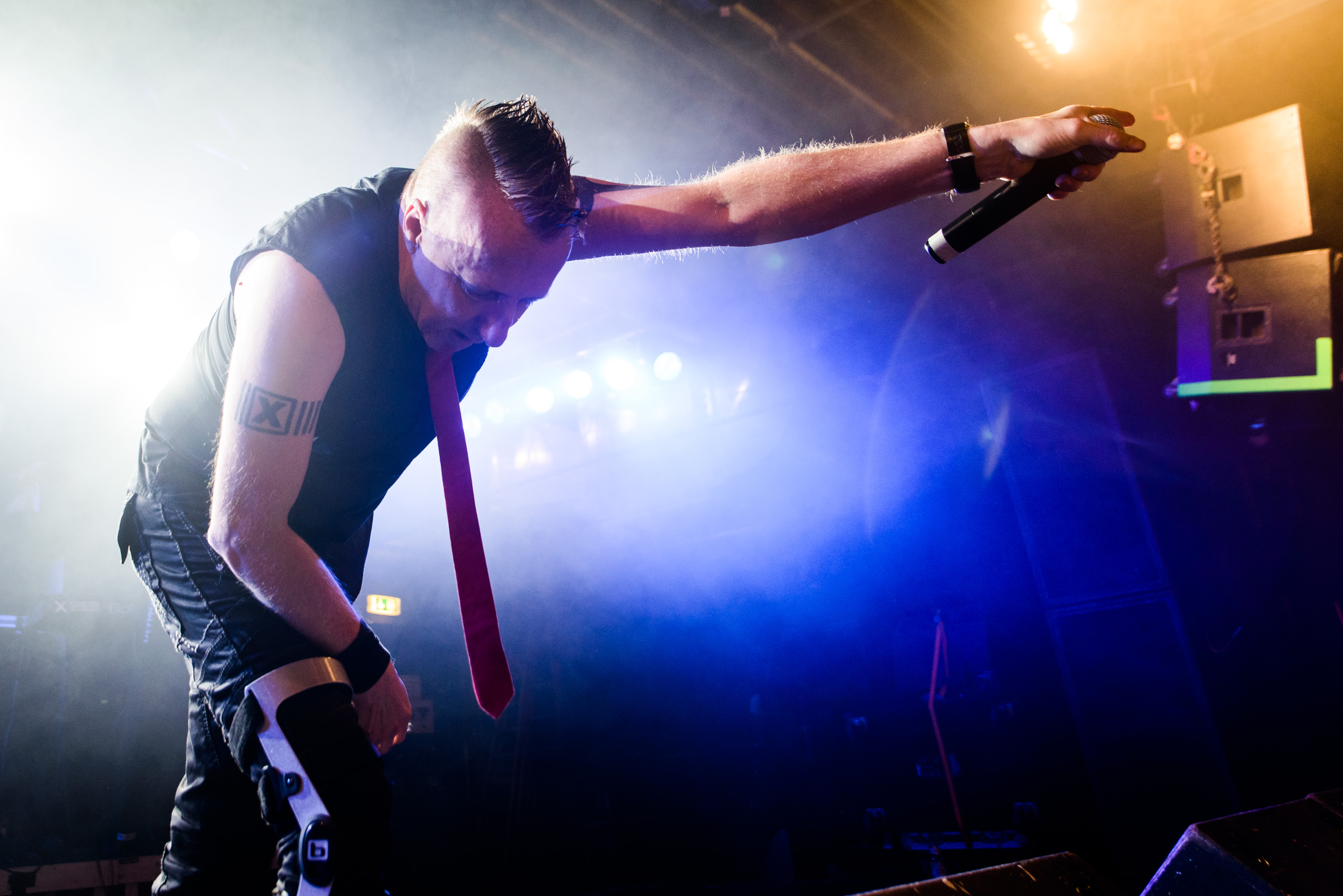 Suicide Commando Live @ Free & Easy Festival 2015